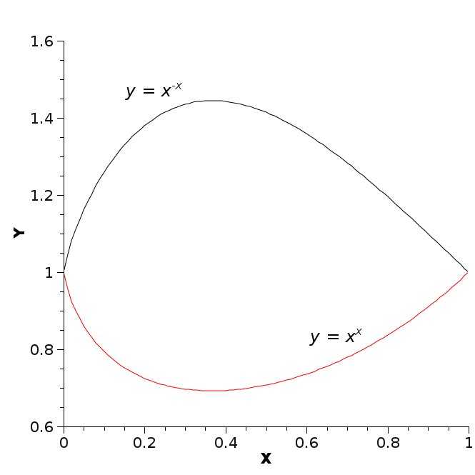 Graph showing the functions featured in the Sophomore's Dream.